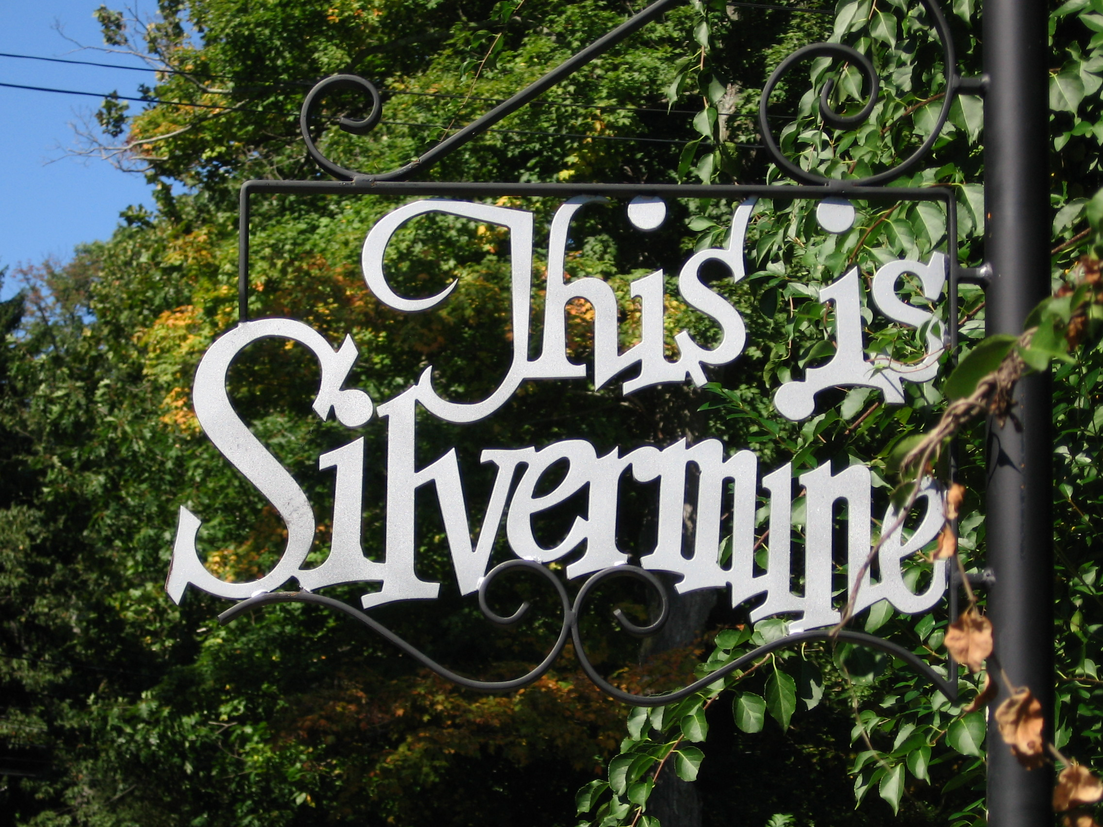 "This is Silvermine" sign in the Silvermine neighborhood, spanning parts of Norwalk, New Canaan and Wilton